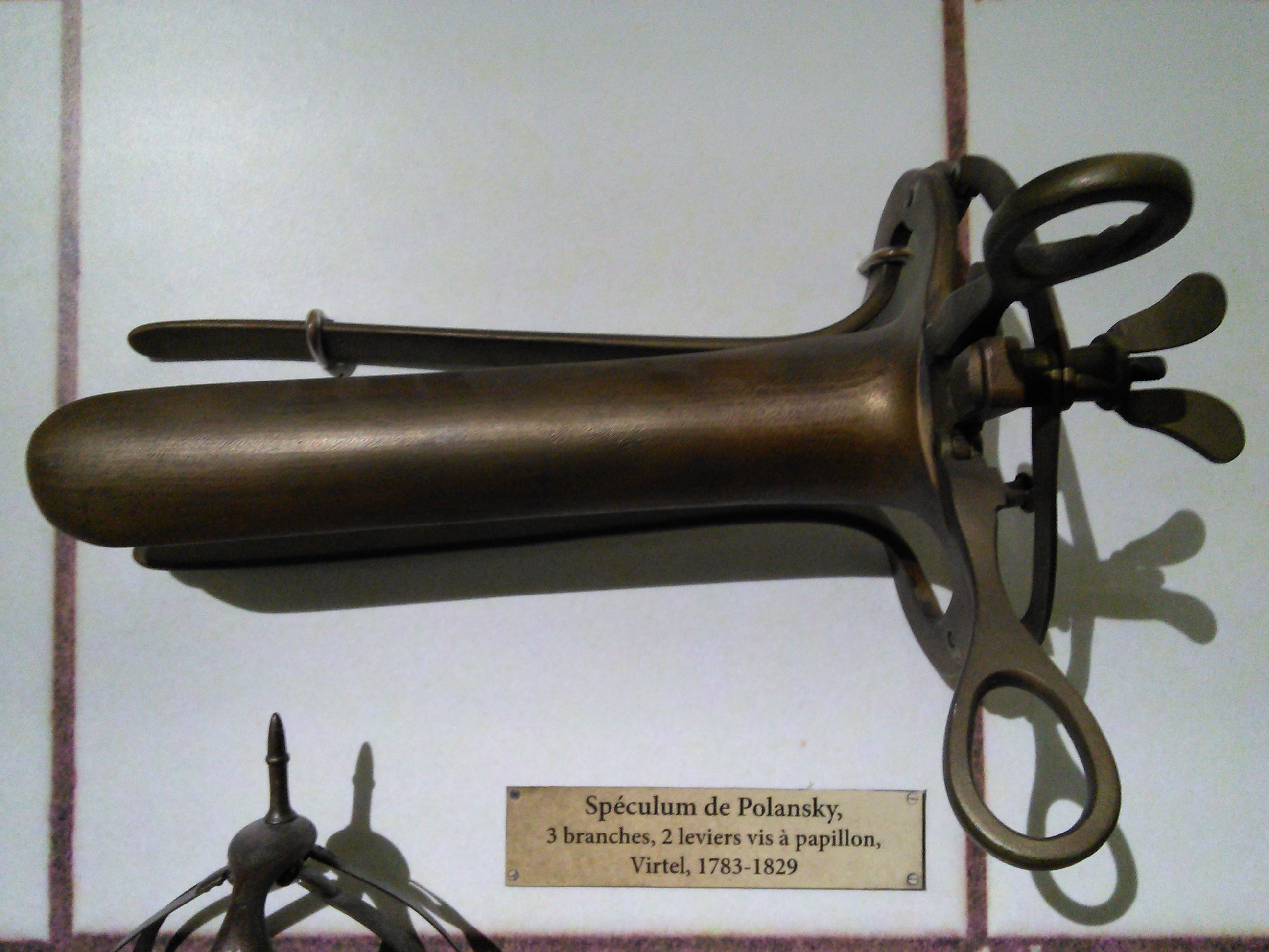 Medical instrument